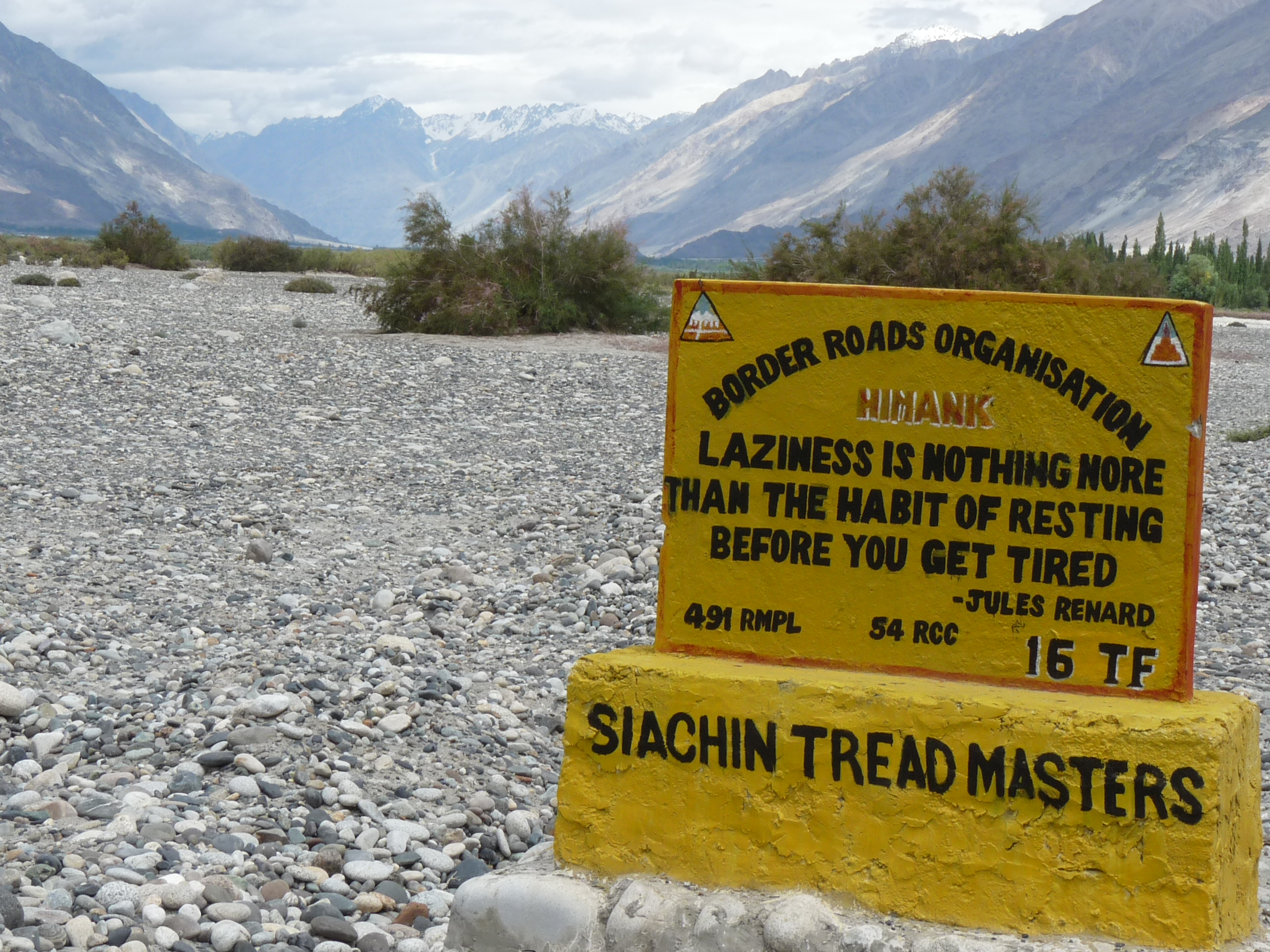 Jules Renard quotation on Himank BRO sign board in the Nubra Valley, Ladakh, Northern India